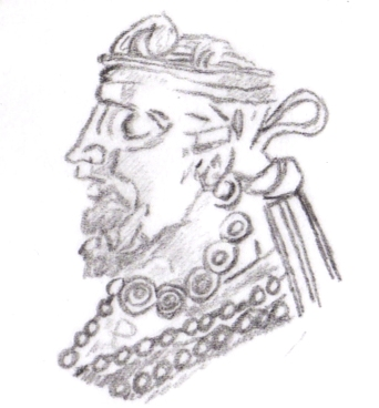 Profile of the Indo-Parthian king Gondophares, according to his clearest coins. Photographic reference